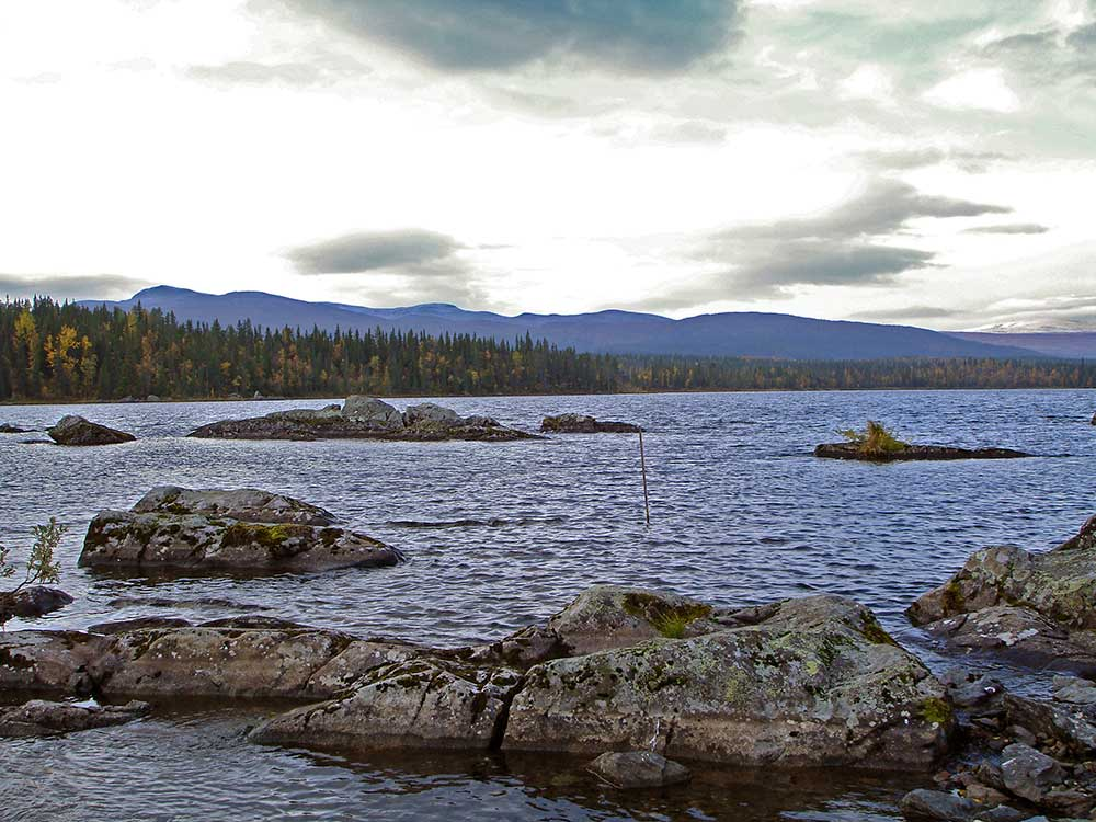 Lake Vuelie Lijhtie (Vuollelite) in Vilhelmina Municipality, Swedish Lapland, viewed from Bångnäs on the northeastern side. In the background is Mount Gitsfjället.